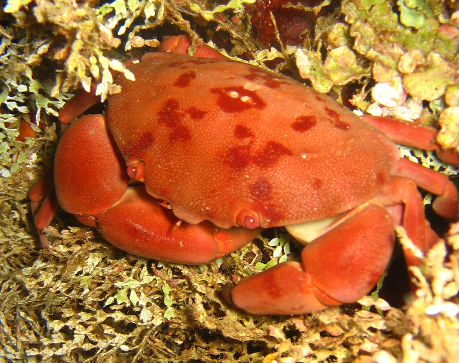 Crab (Carpilius convexus, wrongly identified by the source as Atergatis subdentatus). Approximately 6-8 inches across Image ID: reef0537, NOAA's Coral Kingdom Collection Location: Chuuk, Federated States of Micronesia